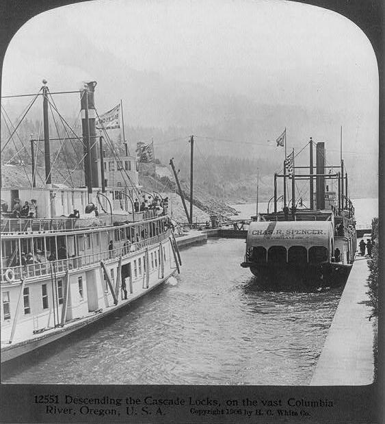 Sternwheelers Charles R. Spencer (on right) and Bailey Gatzert (on left) descending Cascade Locks, ca 1906 (possibly earlier). From an old sterograph.